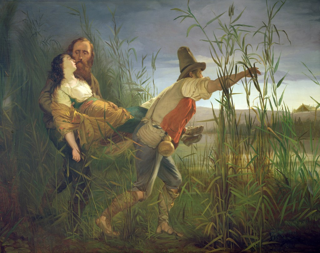 Credit: Garibaldi carrying his dying Anita through the swamps of Comacchio (oil on canvas), Bauvier, Pietro (1839-1927) / Museo del Risorgimento, Brescia, Italy / The Bridgeman Art Library XOT 361297 Image number: Garibaldi carrying his dying Anita through the swamps of Comacchio (oil on canvas) Title: Bauvier, Pietro (1839-1927) Primary creator: Italian Nationality: Museo del Risorgimento, Brescia, Italy Location: oil on canvas Medium: Anita Garibaldi (1821-1849) Brazilian wife and comrade-in-arms of Italian revolutionary Giuseppe Garibaldi (1807-1882); she died after Garibaldi and his troops had fled Rome following its capture by the French in June 1849; Description: Europe Categories: Horizontal